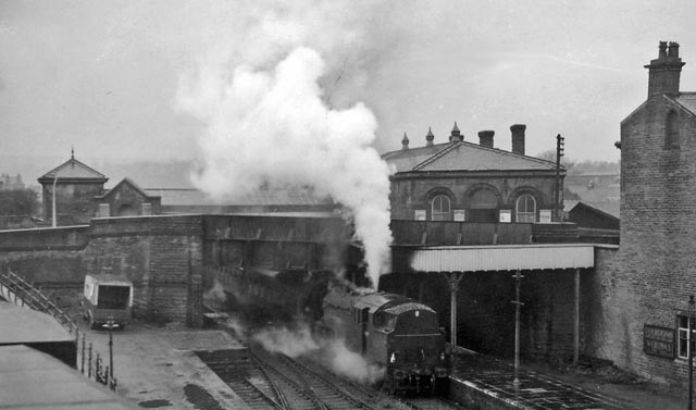 Brighouse (for Rastrick) Station, with train. View westward, towards Halifax and Manchester; ex-Lancashire & Yorkshire Manchester/Halifax - Bradford/Leeds/Wakefield and Normanton main line. Although the direct line through Brighouse was kept open for freight, the station was closed on 5/1/70 (goods 7/9/70). It was reopened 28/5/00 - in more enlightened times. (The train is a local eastbound, probably to Wakefield, hauled by a Stanier 4MT 2-6-4 tank).